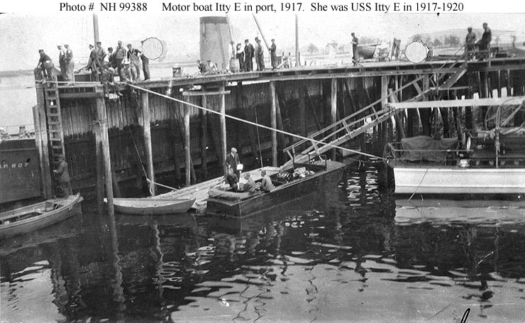 The private motorboat Itty E, probably around the time of her acceptance by the United States Navy for service as the patrol vessel , is at center, tied up to a floating dock. Partially visioble across the pier is the patrol vessel .